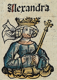 This is a part of a scan of an historical document: Title: Schedelsche Weltchronik or Nuremberg Chronicle